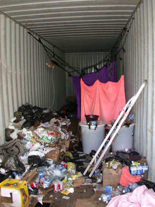 Container used for illegal immigration to the U.S., 22 Chinese were arrested at the Seattle seaport.